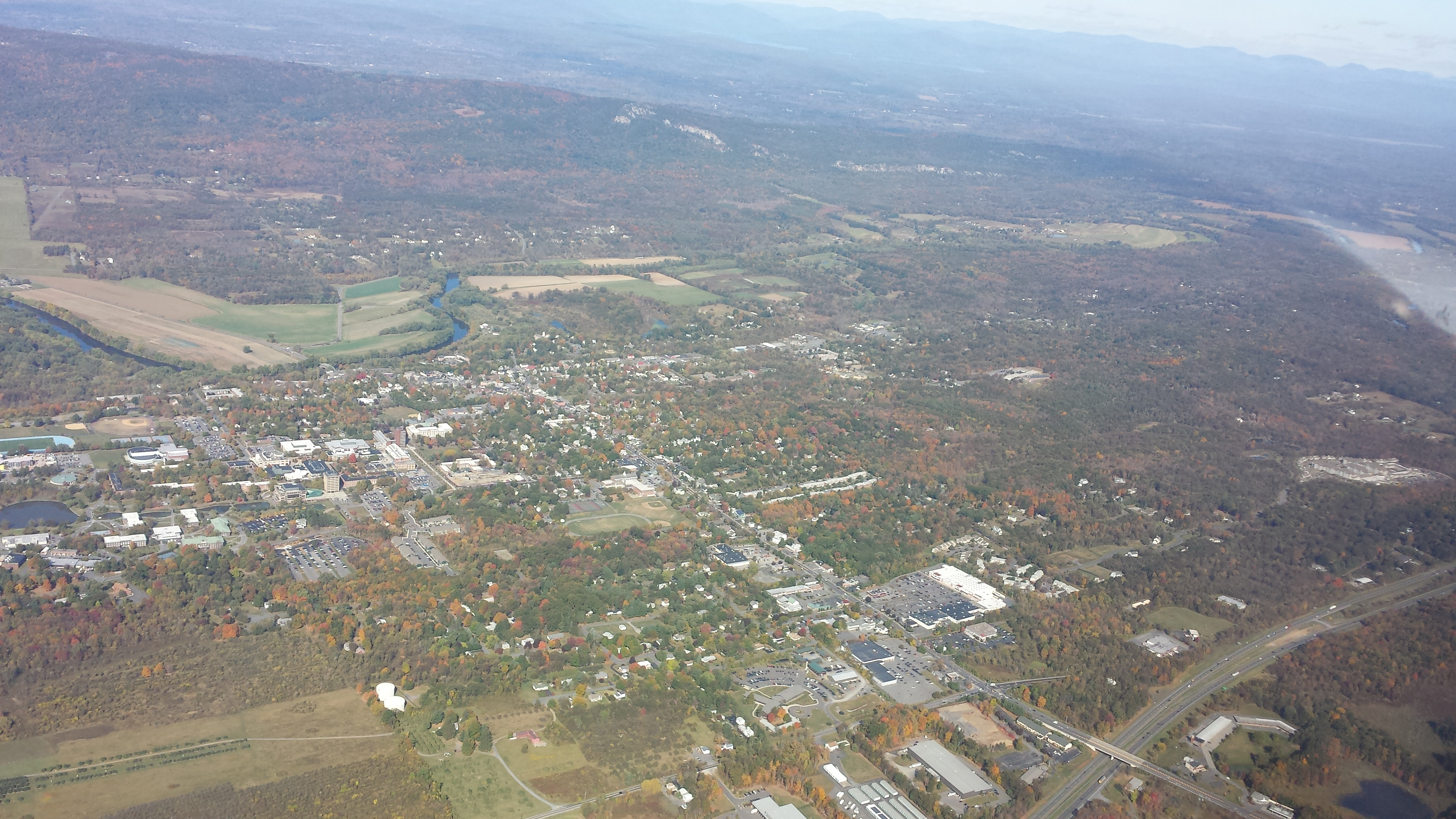 View of New Paltz, New York from a Cessna 172 airplane at an altitude of 3,500 feet MSL, looking west